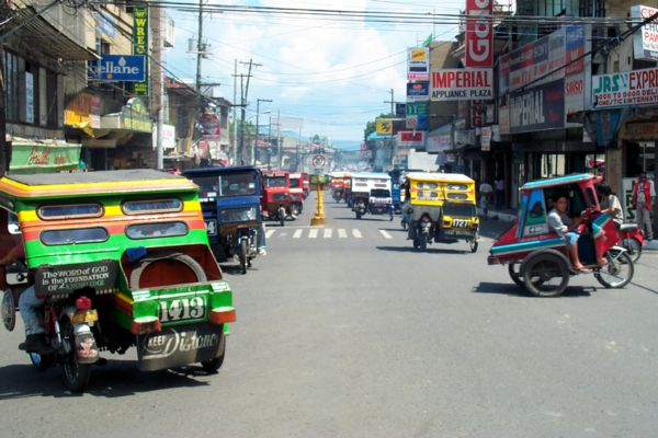 CPG Avenue, Tagbilaran, Bohol, the Philippines.